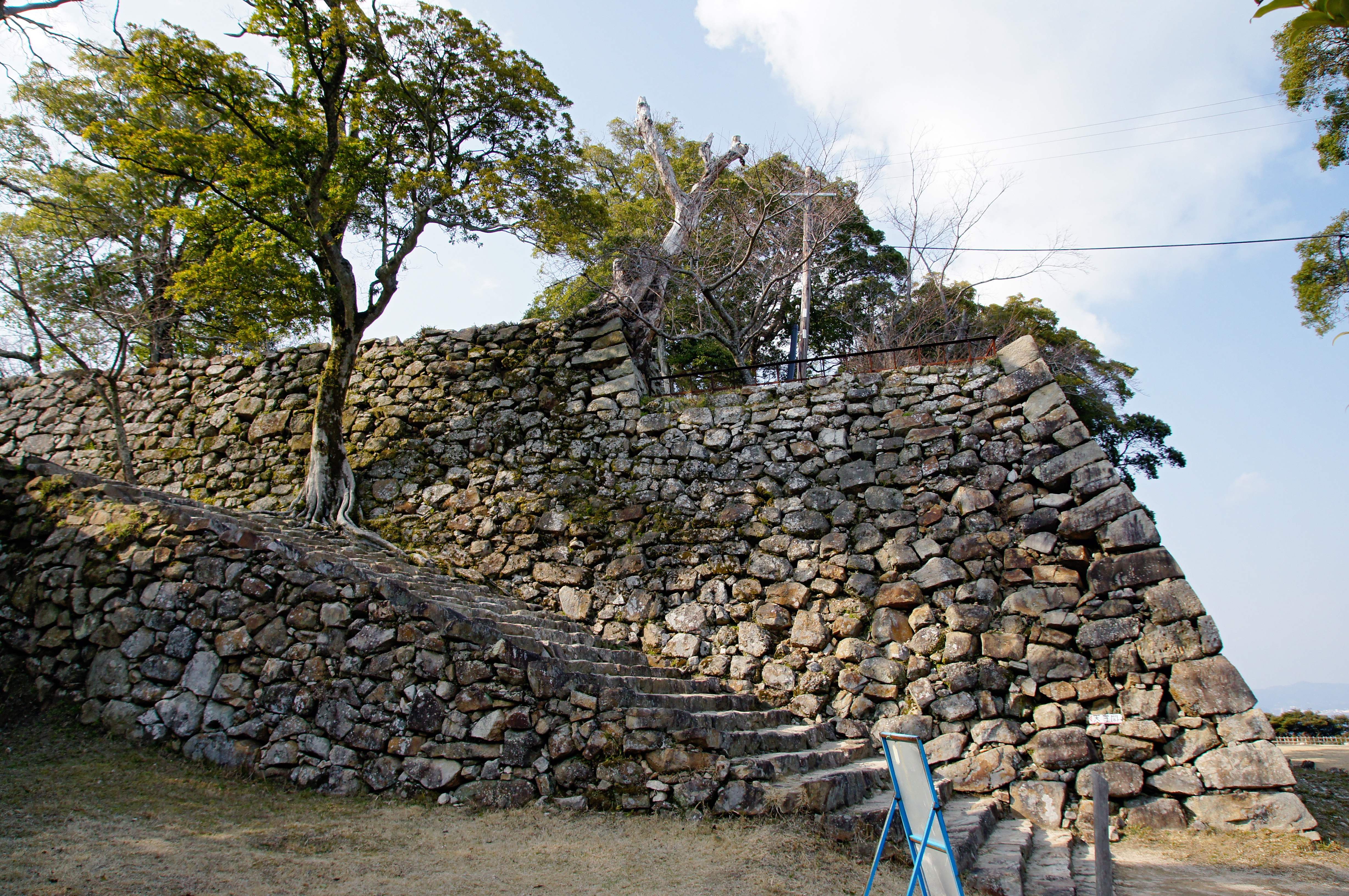 Sumoto Castle in Sumoto, Hyogo prefecture, Japan.